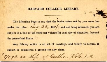 "Overdue notice mailed by Harvard College Library (Cambridge, MA) on Aug. 28, 1884."